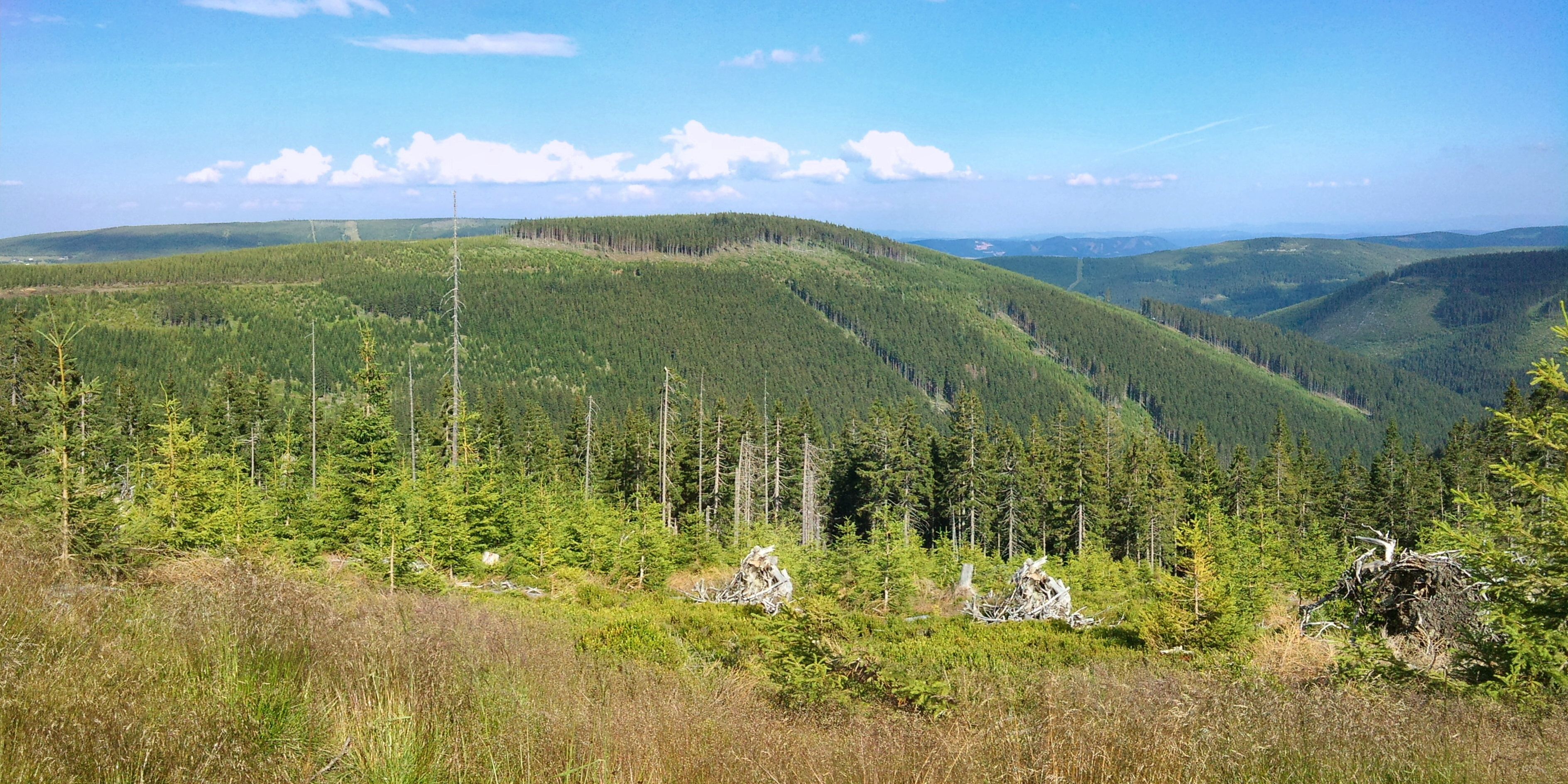 Jelení hora in Krkonoše mountains